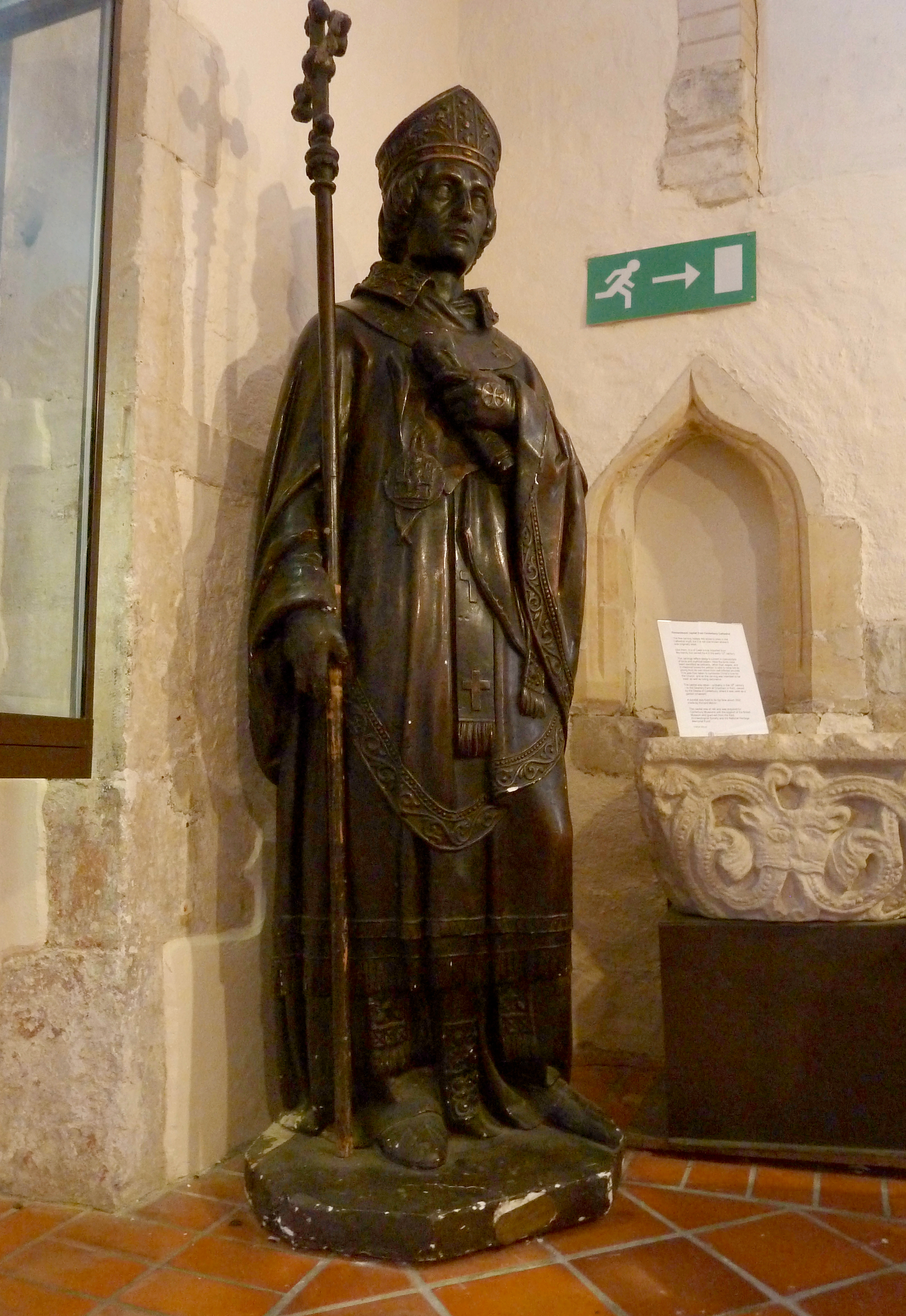 Plaster maquette of Stephen Langton by John Thomas (sculptor). One of 17 maquettes for life-sized bronzes representing the signatories of the Magna Carta. The bronzes decorate the walls of the Lords Chamber at Westminster Palace, London. As of 2013 this plaster maquette is in the Canterbury Heritage Museum, and the rest are unavailable to the public in Westgate Towers, Canterbury. Its original label says "Stephen Langton by John Thomas".